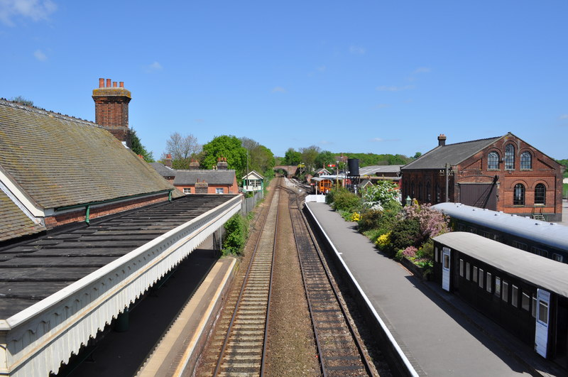 Chappel and Wakes Colne Station, near to Wakes Colne, Essex, Great Britain. The railway station (1880), on the Sudbury branch now hosts the East Anglian Railway museum. The coach to the bottom right is a Great Eastern Railway coach from Homersfield. Opening is every day apart from Christmas and Boxing day.